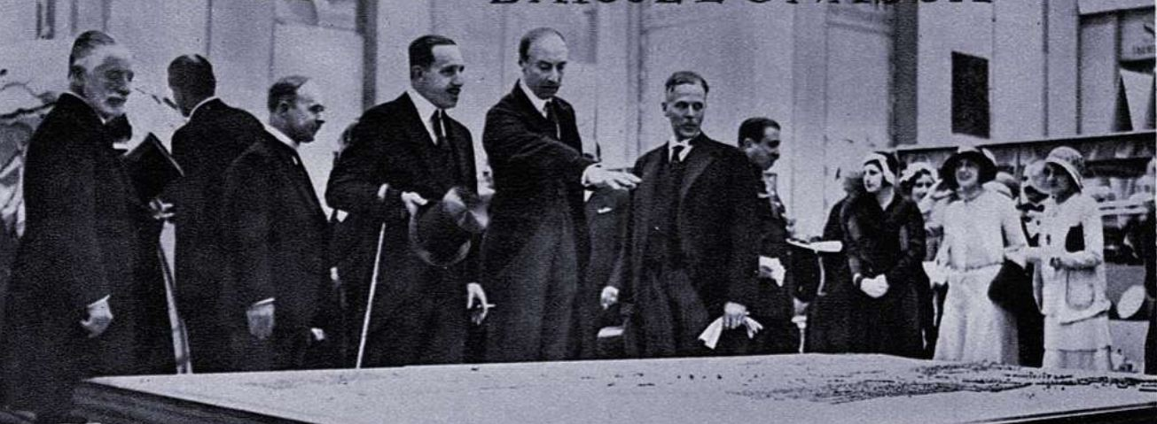 Barcelona world fair in 1929 - king Alfonso XIII and minister Gripenberg of Finland on Finnish section